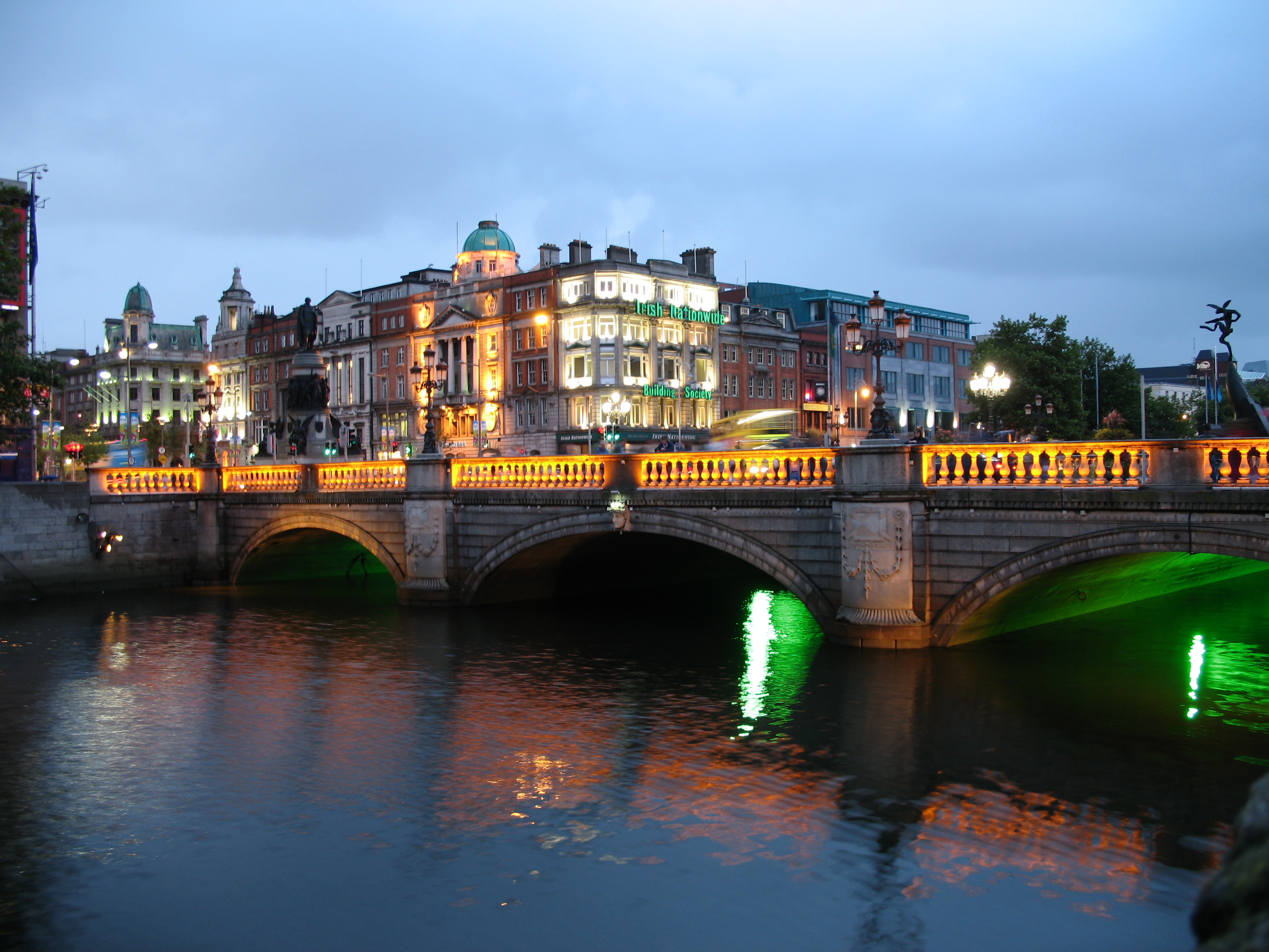 Dublin at twilight